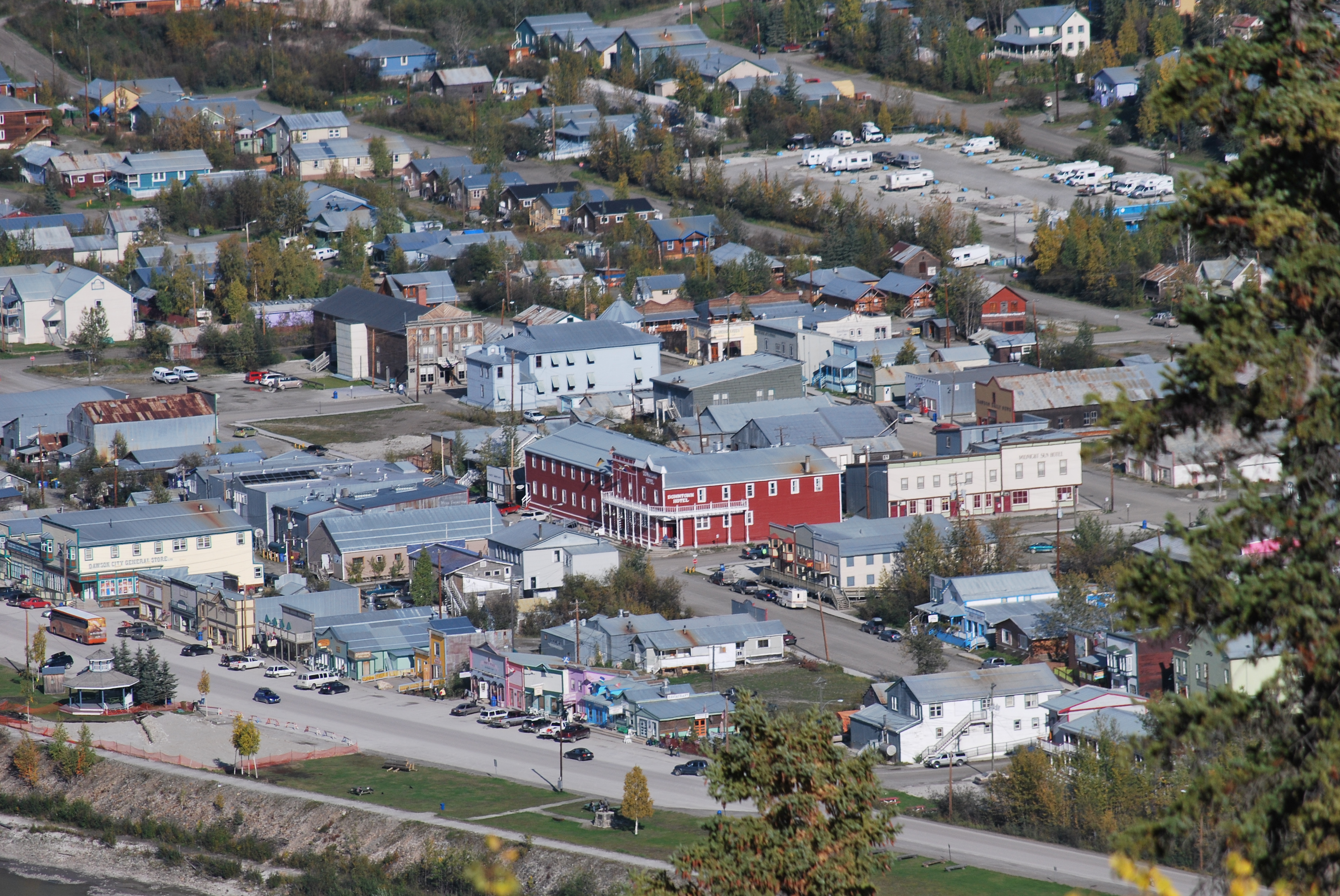 Dawson City from Top of the World Hwy